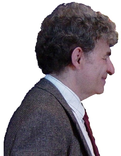 Photo of Robert Parnes, author of CONFER